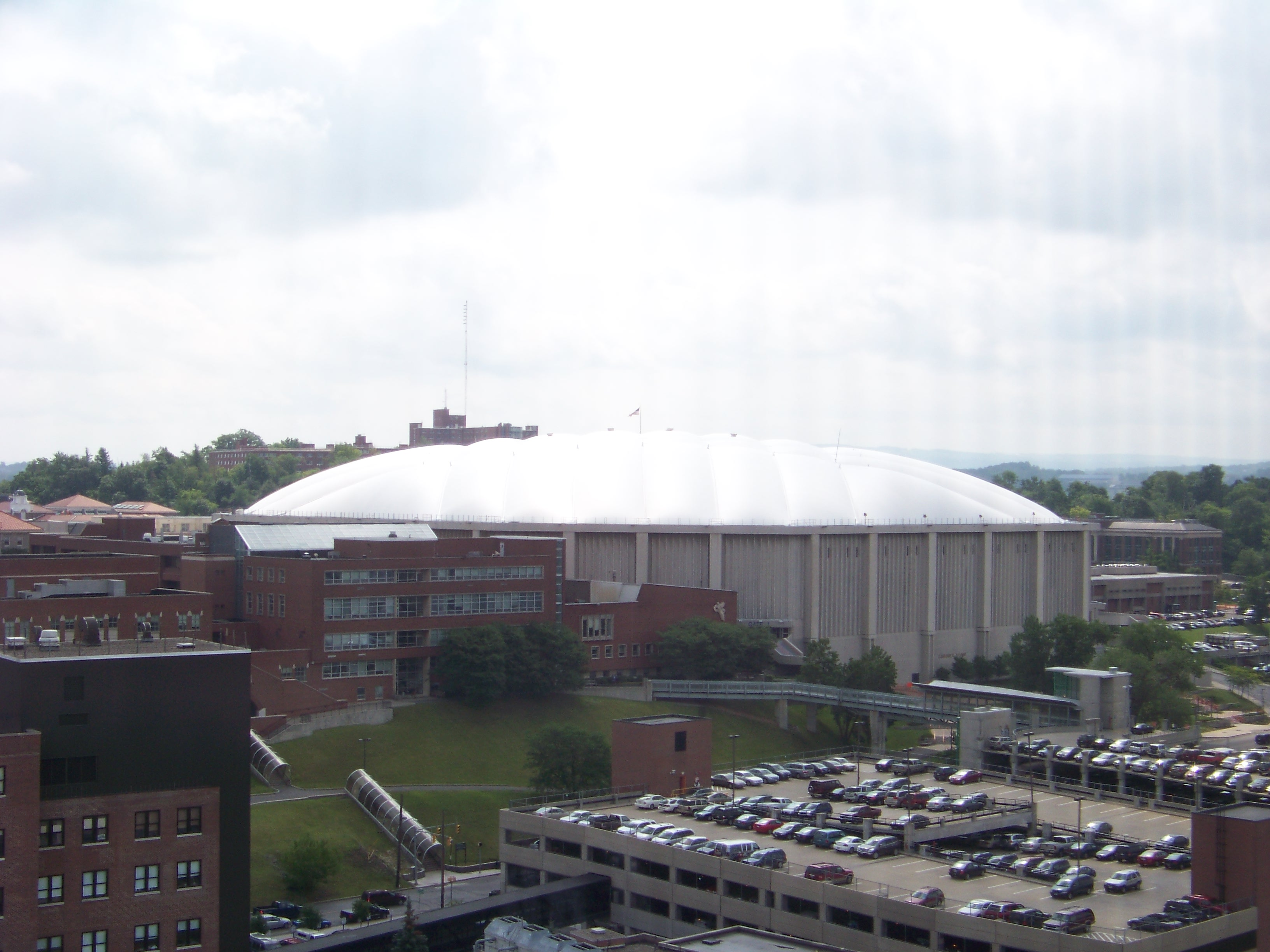 Carrier Dome from 24th floor of Toomey Abbott Towers